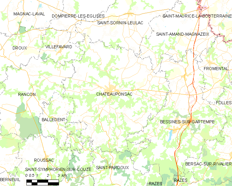 Map of French municipality Châteauponsac